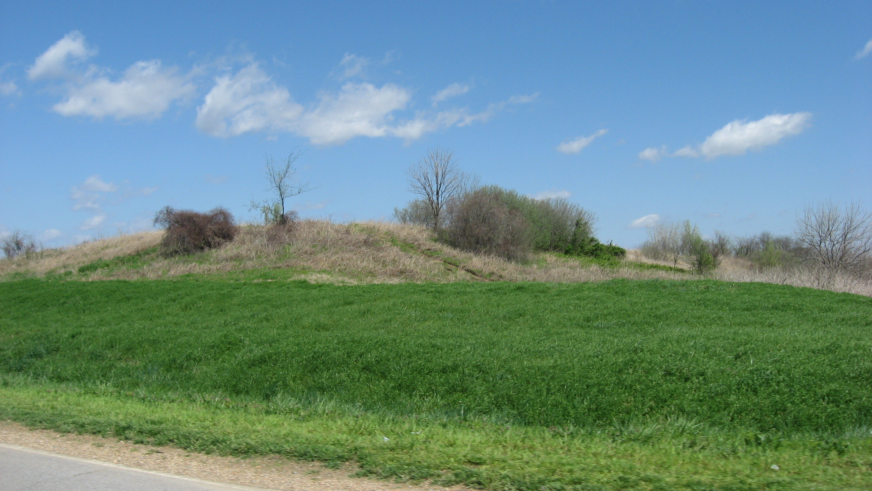 Platform mound at the Campbell Archeological Site, located along Route E east of Cooter in Cooter Township, Pemiscot County, Missouri, United States. The site was once a village of Mississippian peoples, and it is listed on the National Register of Historic Places.